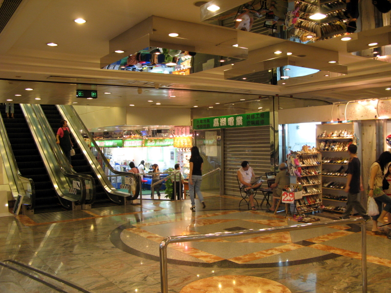 Tin Shui Wai Kingswood Richly Plaza